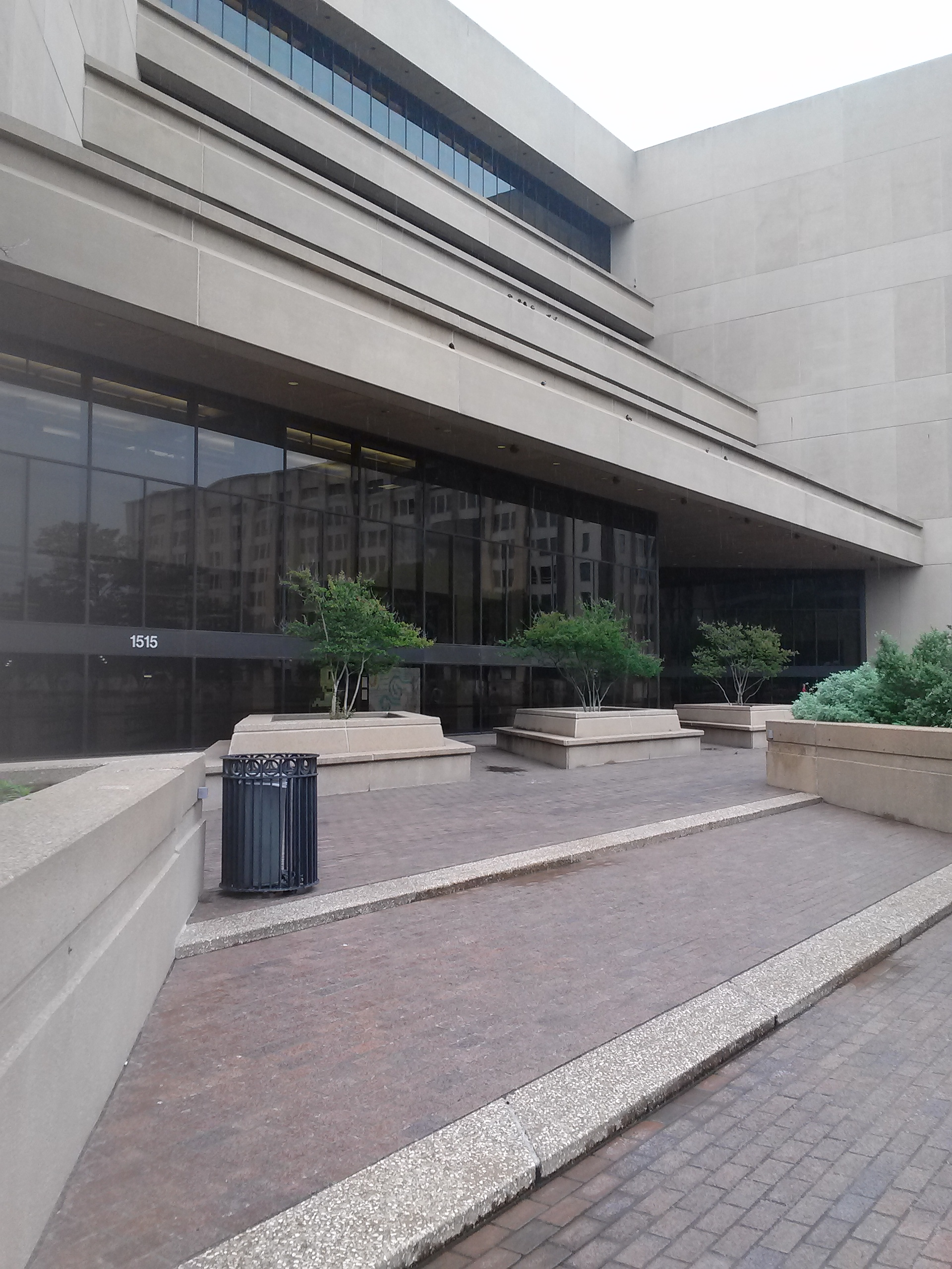 J. Erik Jonsson Central Library